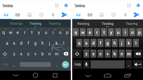 Android l vs kitkat keyboard